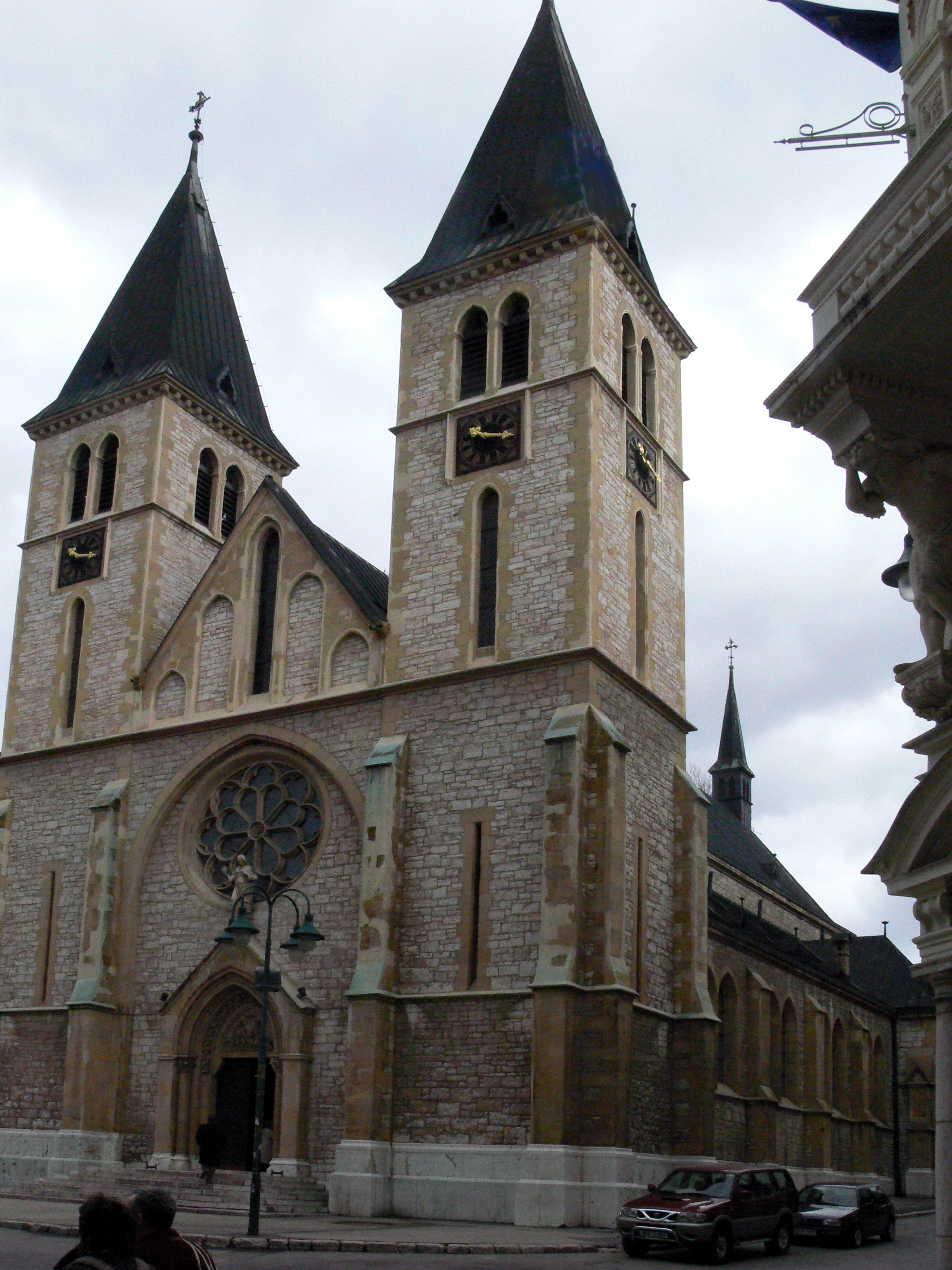 Sarajevo catholic cathedral